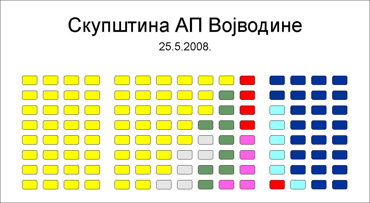 Autonomous Province of Vojvodina Assembly, following 2008 elections.